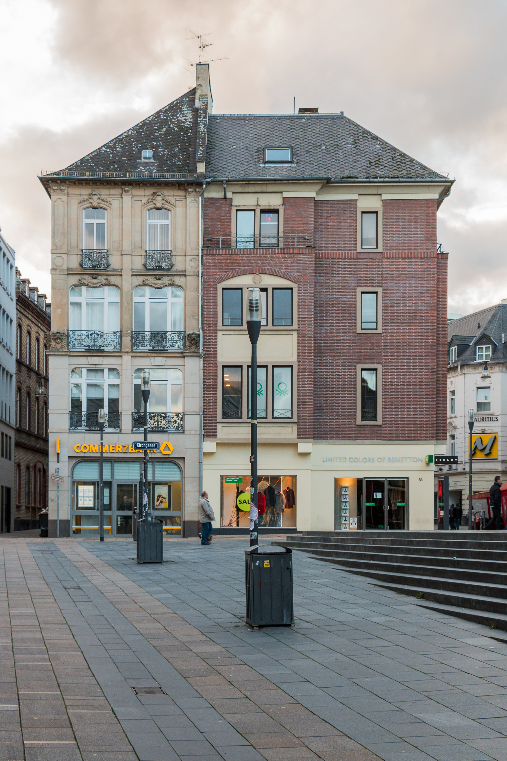 Kirchgasse 58, Wiesbaden, Germany